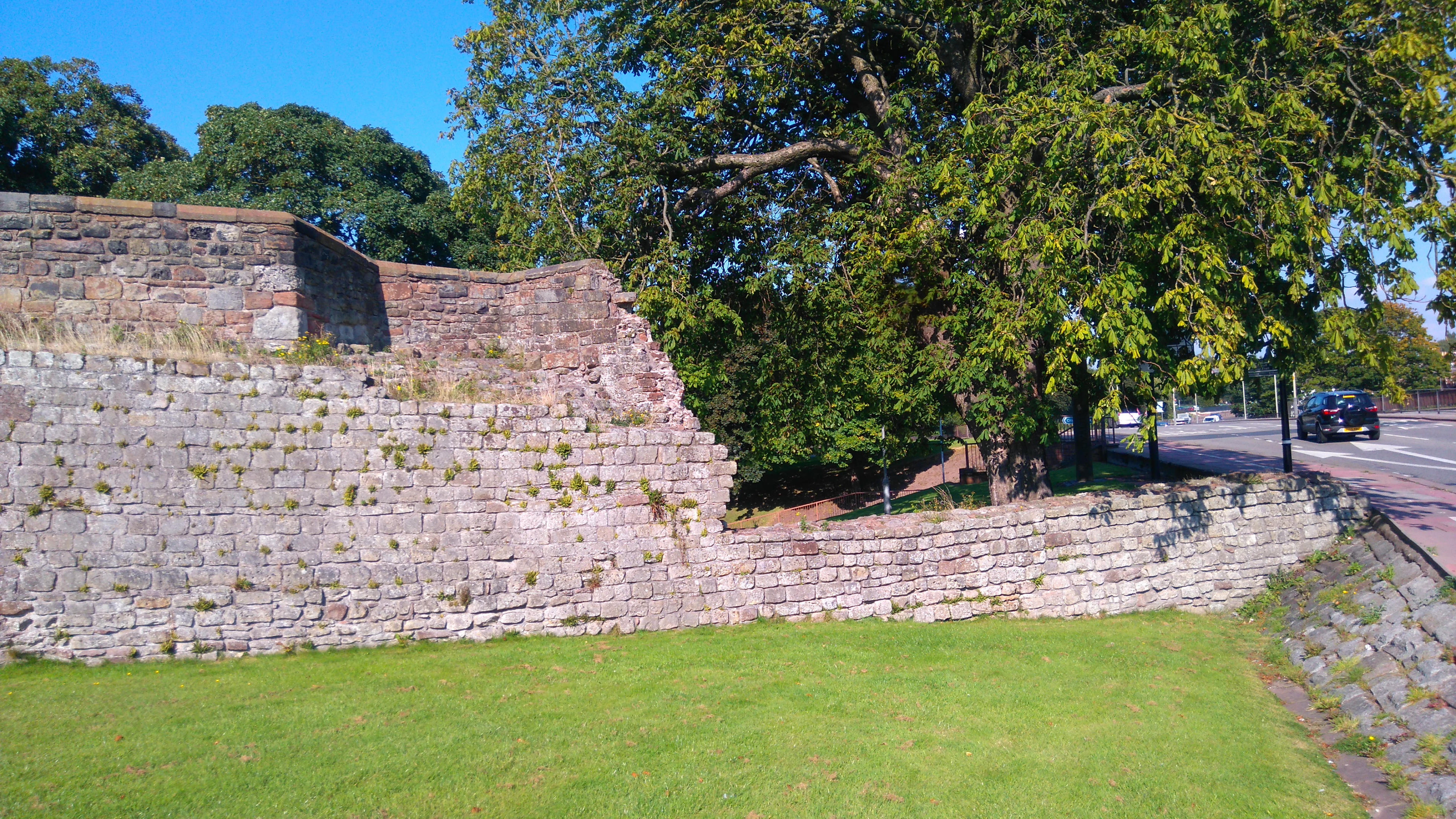 Half hexagon sentry post, from inside Carlisle city walls near the castle. This is where the surviving fragment of the north walls comes to an end